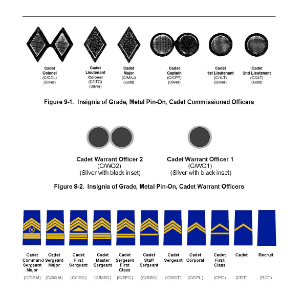 Enlisted, NCO, Warrent Officer and Commissioned Officer Ranks of the CACC